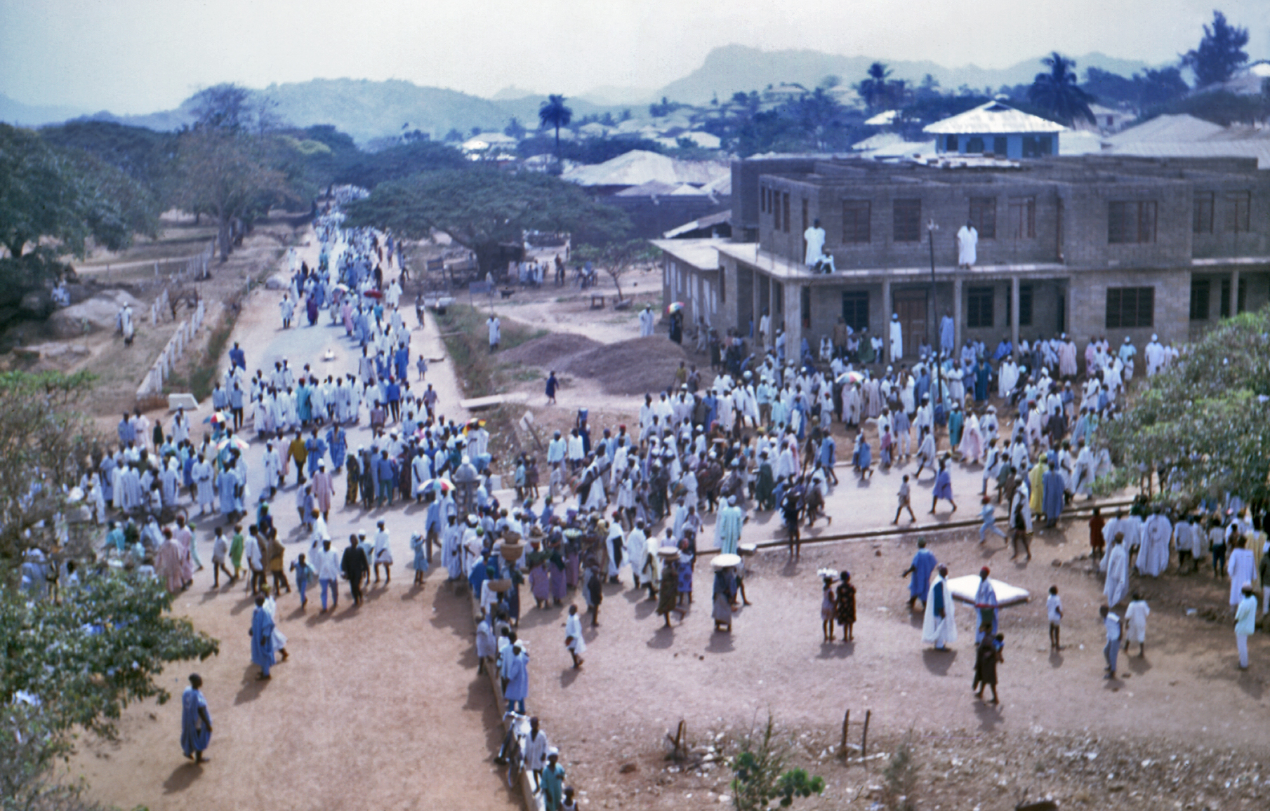 This 1969 photograph was captured while overlooking a crowd of people in the streets of a village of Dekina, Nigeria, which was the site of a smallpox outbreak that same year.